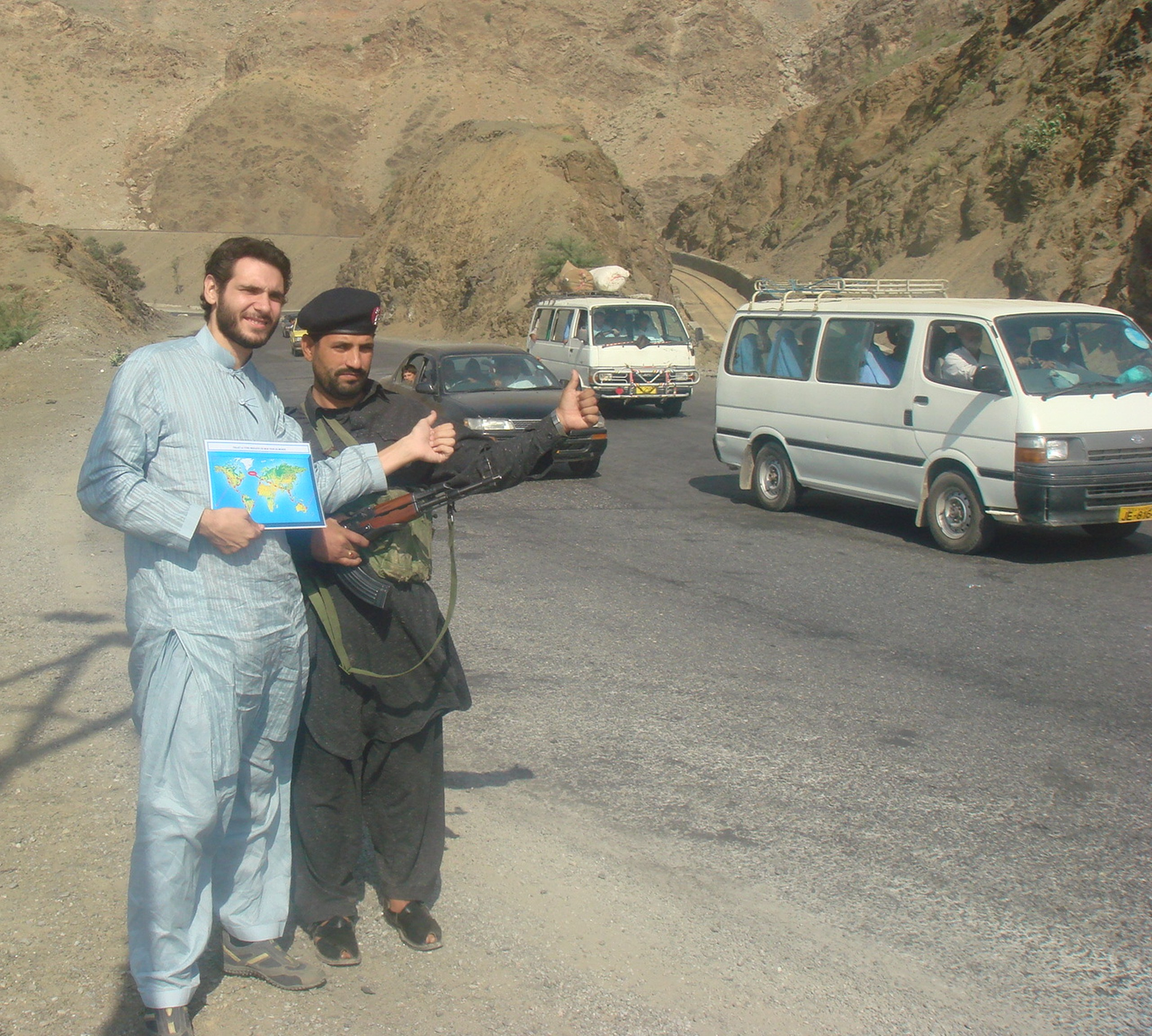 Auto-stop, zones tribales Pakistan